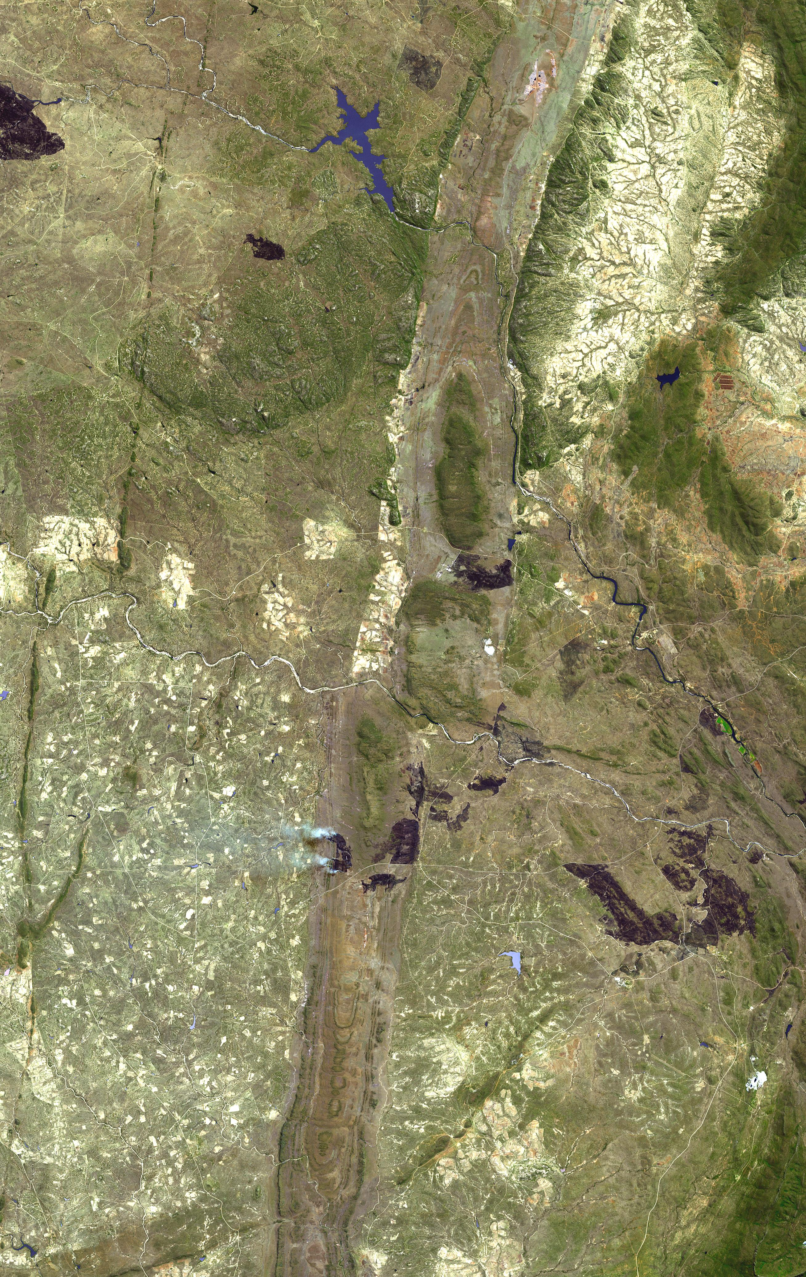 Satellite view of the Great Dyke